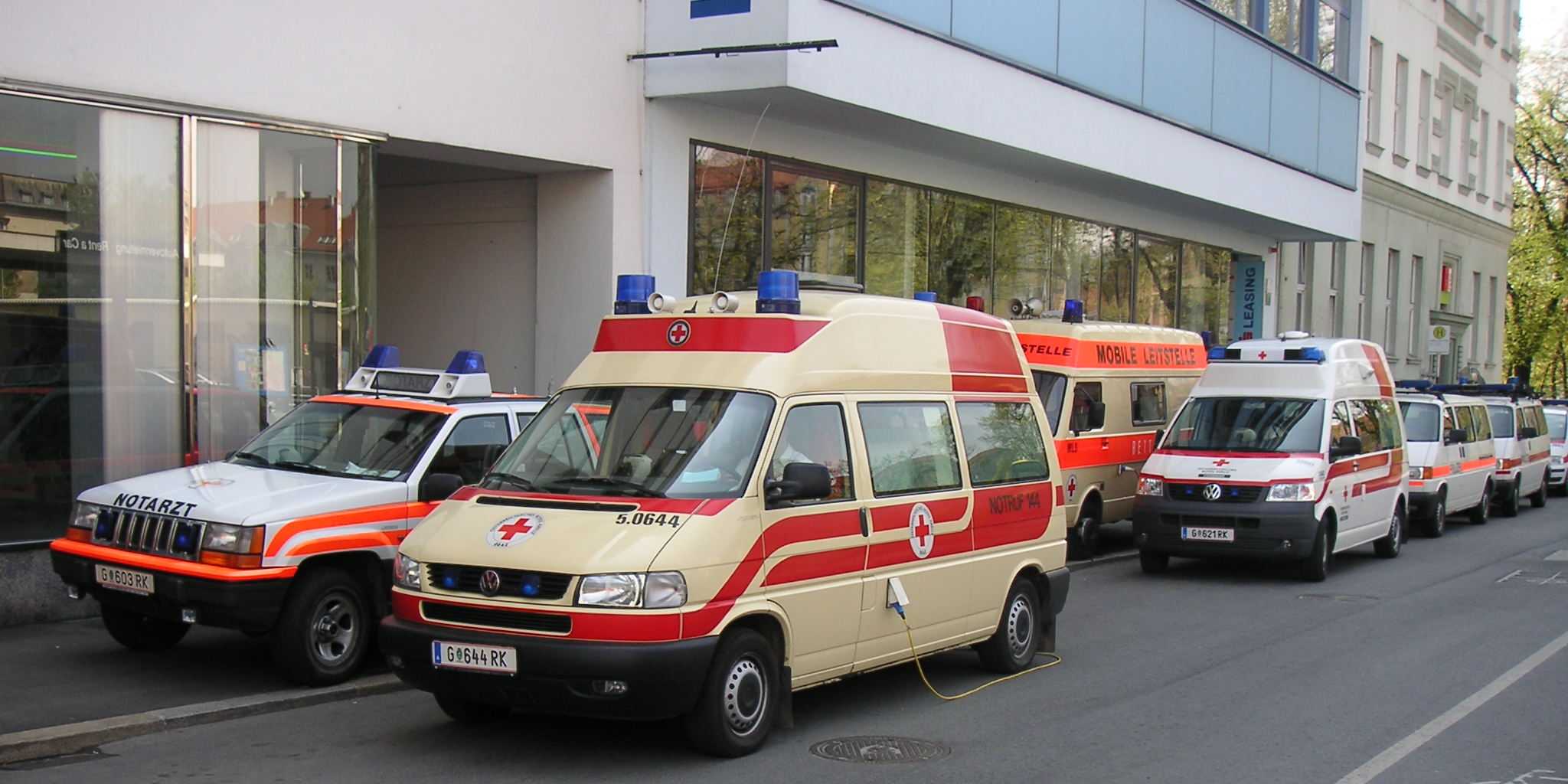 Some ambulances standing by at the EU Minster Summit in Graz, Austria (2006). Details about the vehicles from left to right: "Notarzt" (emergency physicians car) - a Jeep Grand Cherokee (ZJ), ambulance, mobile dispatch car, ambulance; there are also some police cars visible in the background.